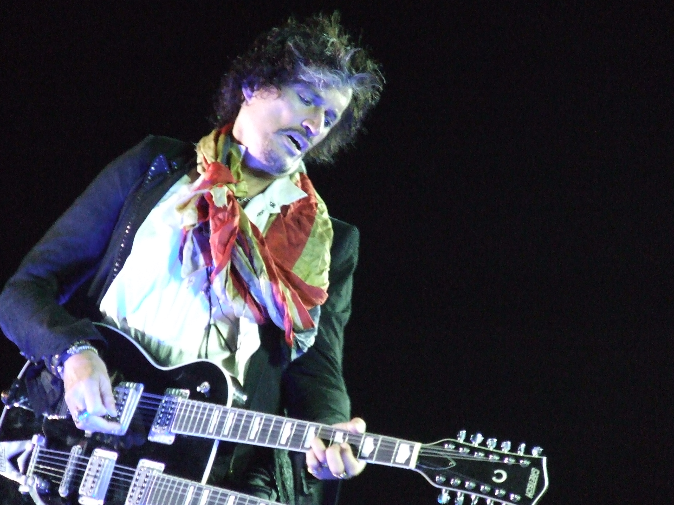 joe perry guitarra